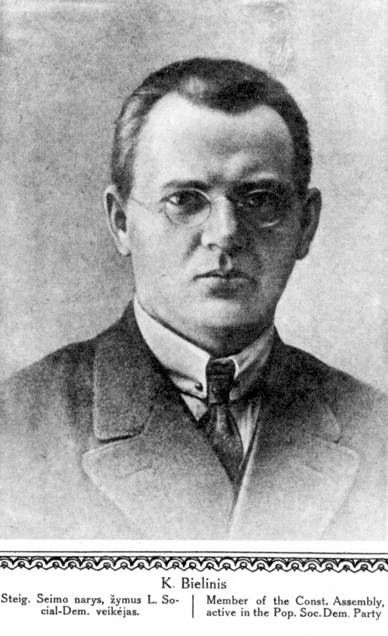 Kipras Bielinis, member of Constituent Assembly of Lithuania and Lithuanian SeimasLietuvių: Kipras Bielinis, Lietuvos Steigiamojo Seimo ir kitų Seimų 1922-1927 m. atstovas